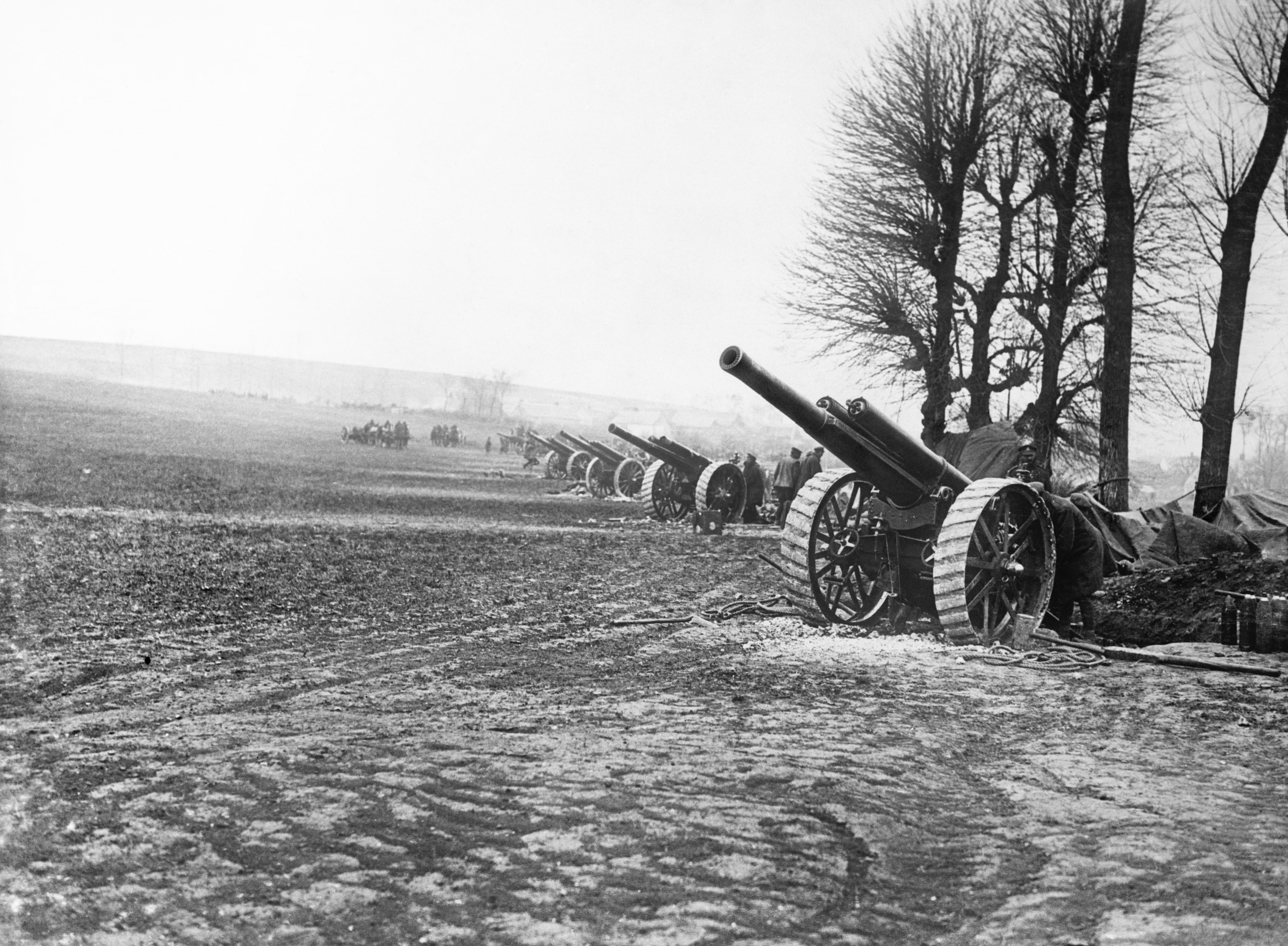 The German Spring Offensive, March-july 1918 60-pounder battery of the Royal Garrison Artillery in position near Albert, 28 March 1918.